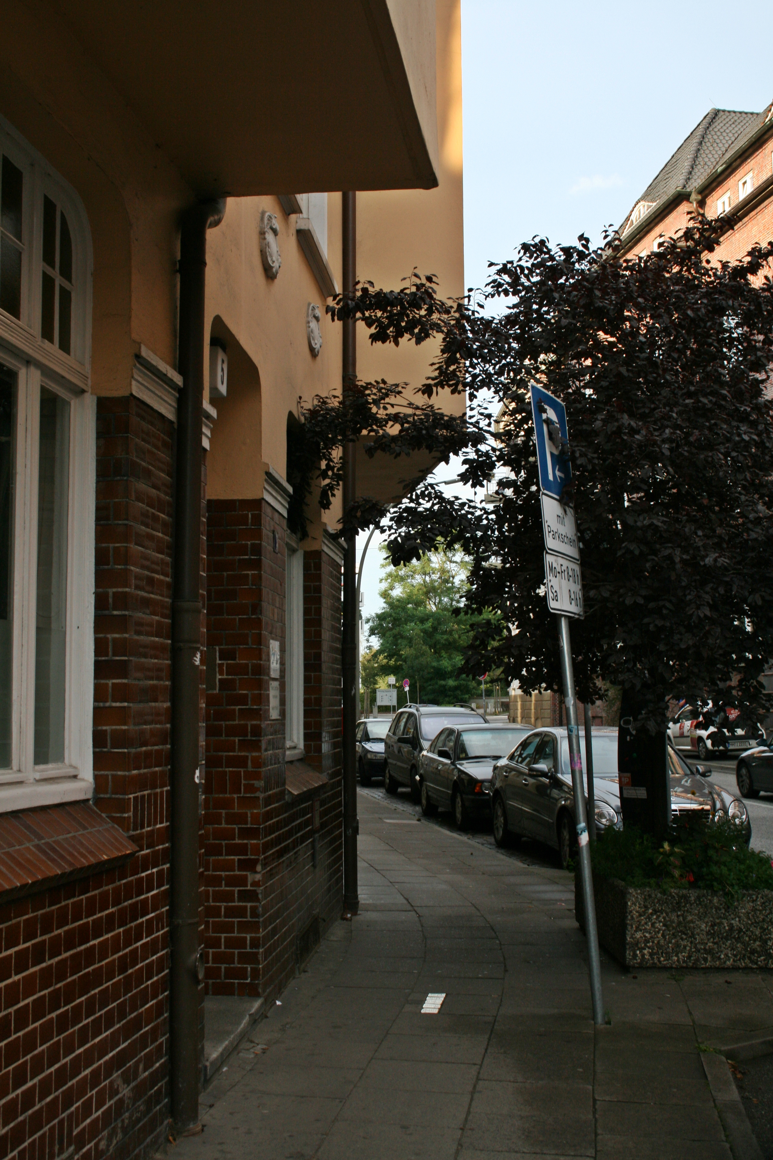 Entrance of the house Rosendorff-Meier, Ernst-Mantiusstraße 5 in Hamburg-Bergedorf. In front of the entrance there are Stolpersteine for the murdered jewish family Rosendorff-Meier